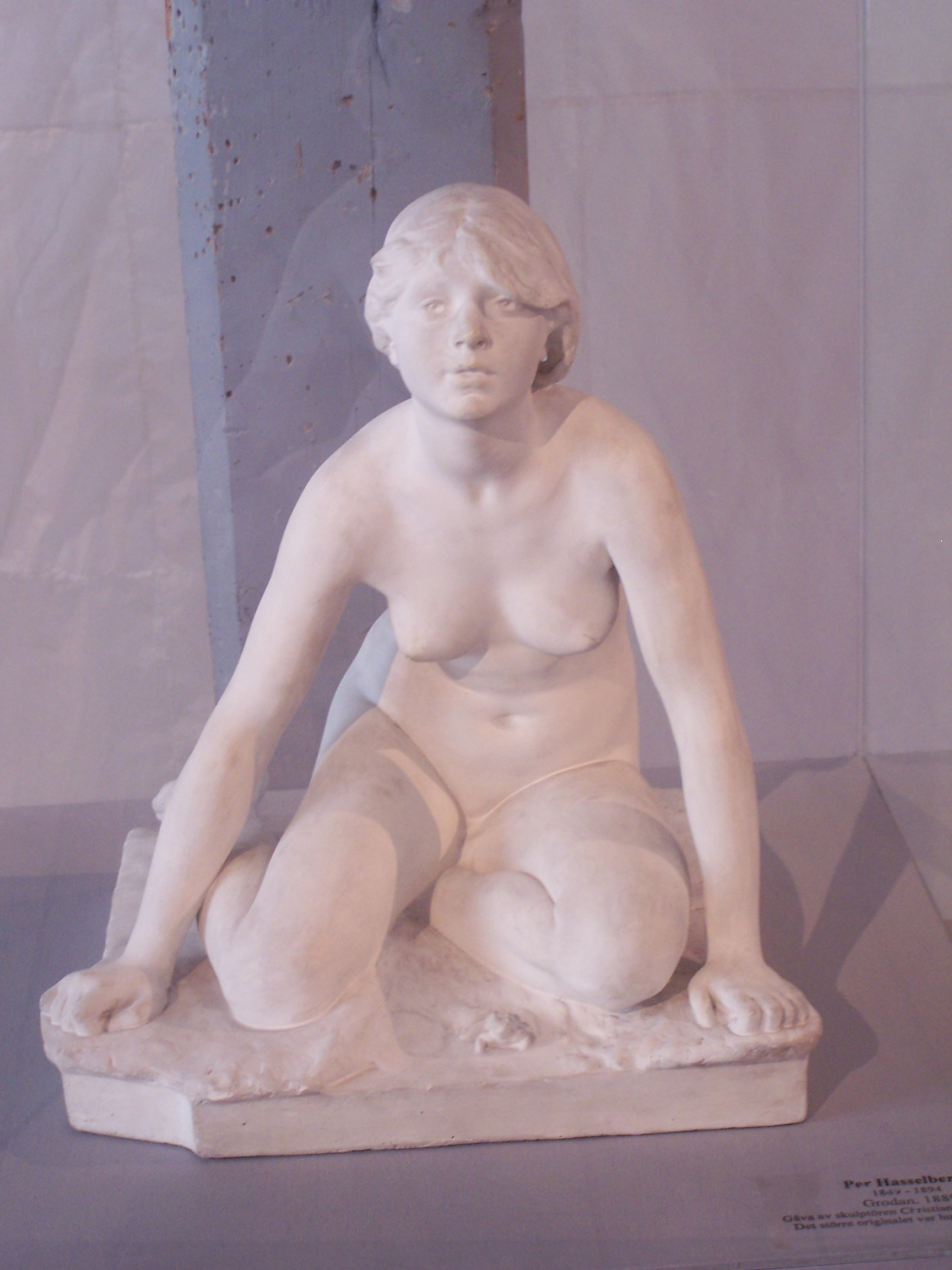 "Grodan", small copy of sculpture by Per Hasselberg. Original sculpture was much larger and made of marble. At Båtsmanskasernen, Karlskrona, according to enwp.